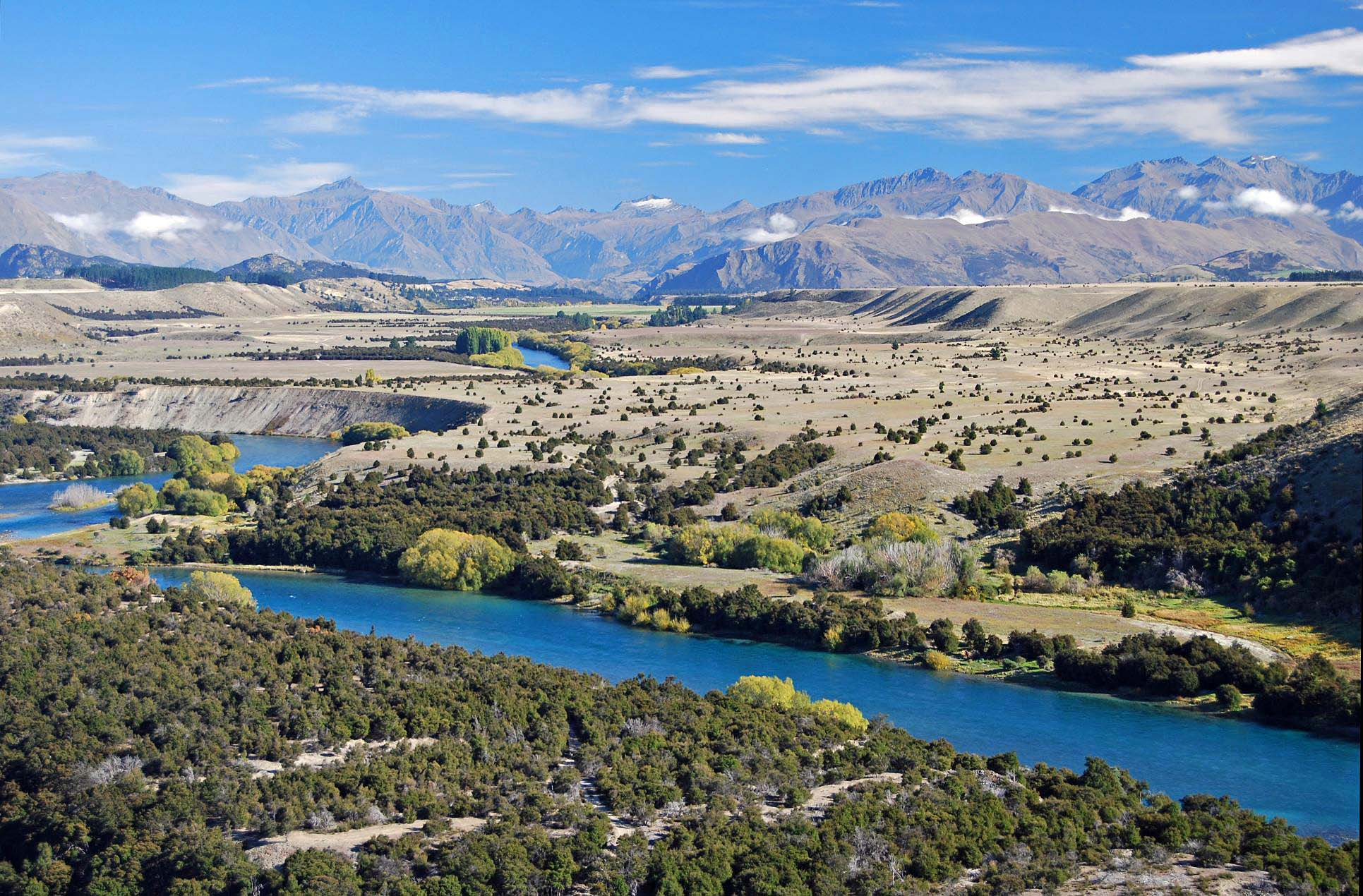 Photograph of the Upper Clutha Valley, Central Otago, New Zealand. This view is from Reko's Bluff, looking upriver toward the Southern Alps..